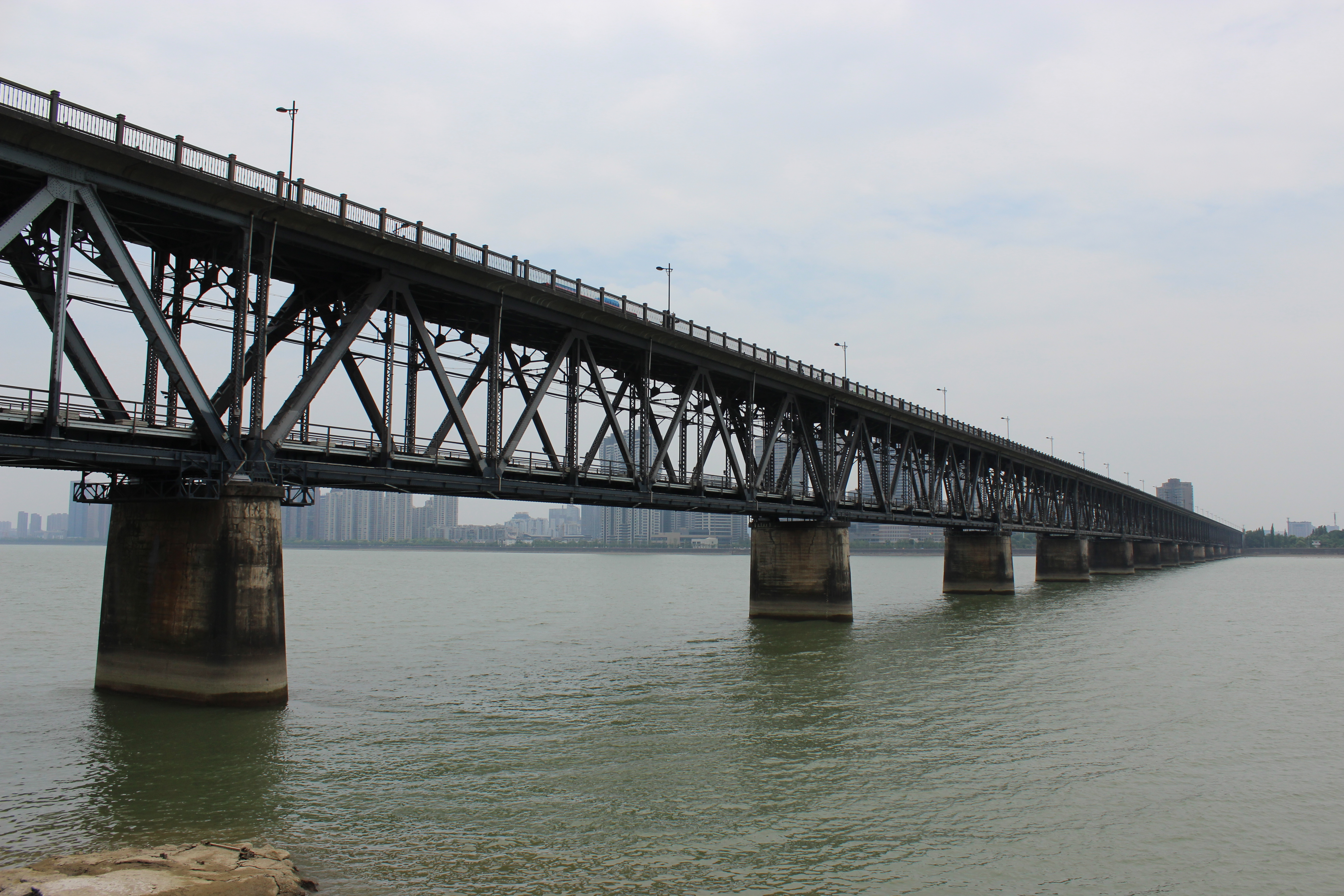 General view of Qiantang river bridge in Huangzhou, China